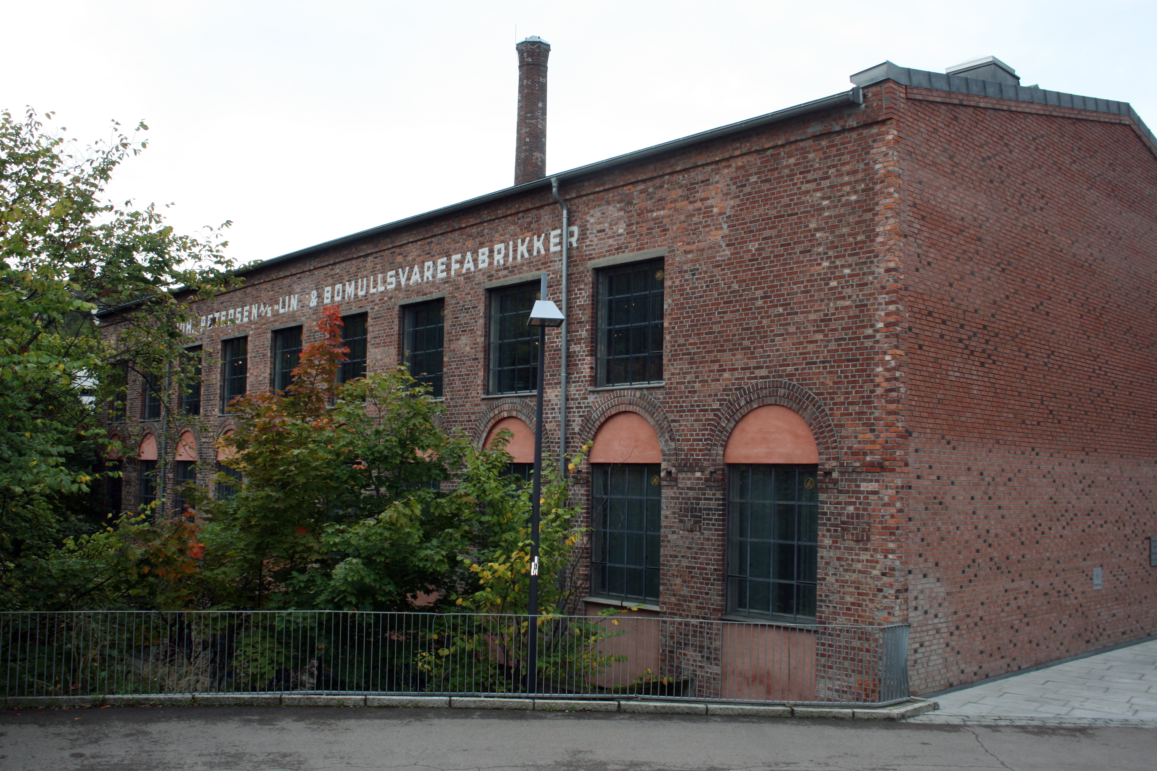 Joh. Petersen A/S, formerly textile industry, now offices at Bryn in Oslo. Built 1912.